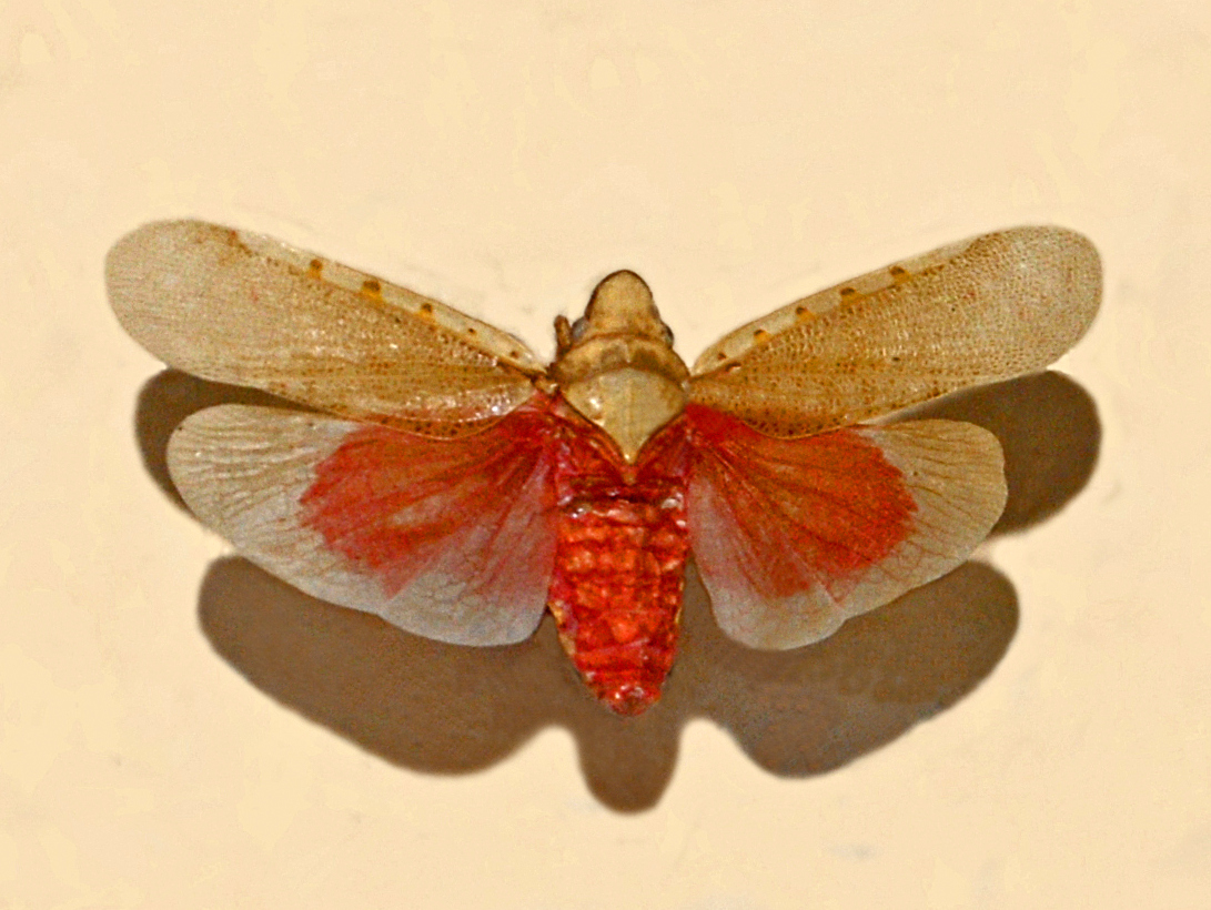 Omalocephala intermedia from Eritrea. Museum specimen